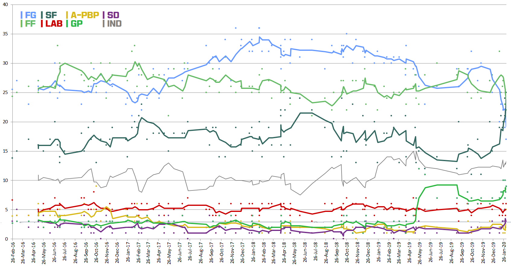 Ireland Opinion Polls 2020